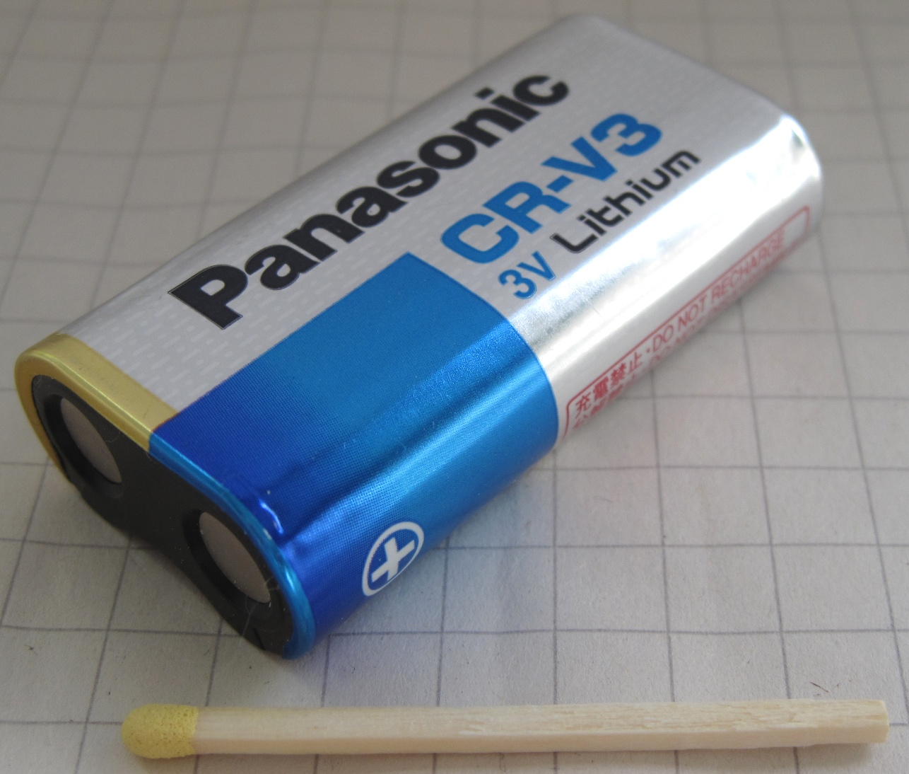 A CR-V3 battery and matchstick for scale.